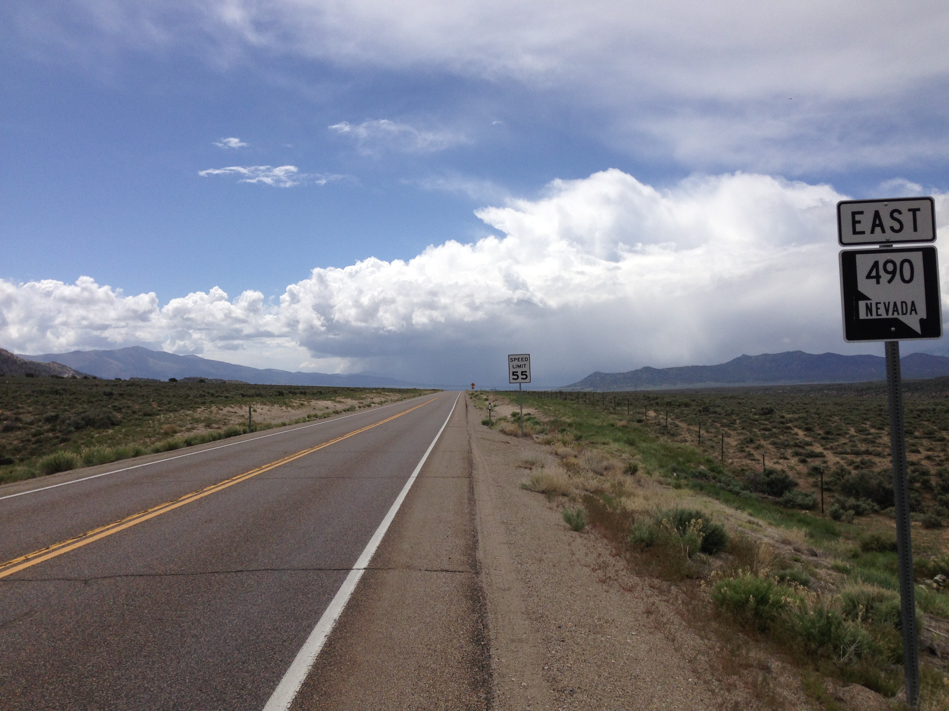 First reassurance sign along eastbound Nevada State Route 490